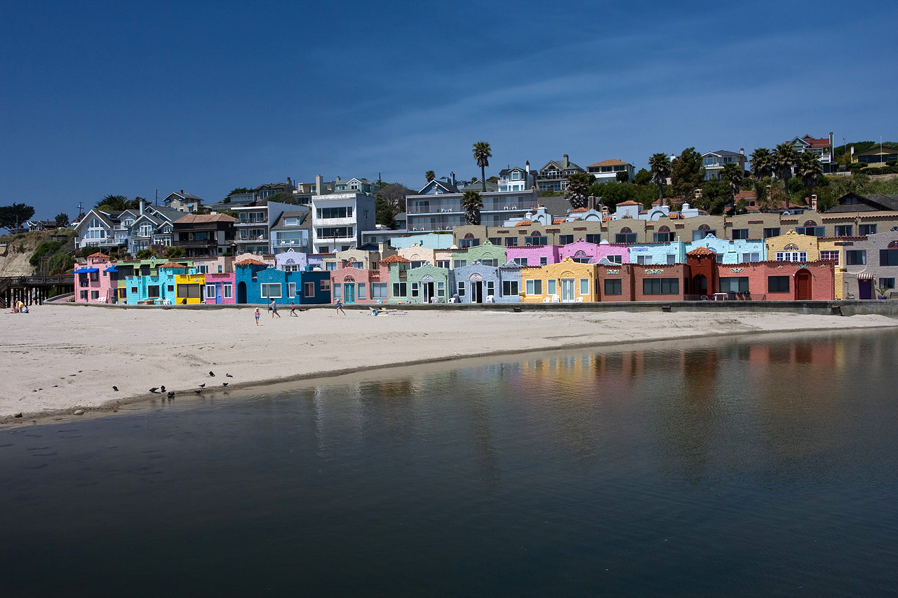 Capitola, a city in Santa Cruz County, California, United States, on the coast of Monterey Bay.